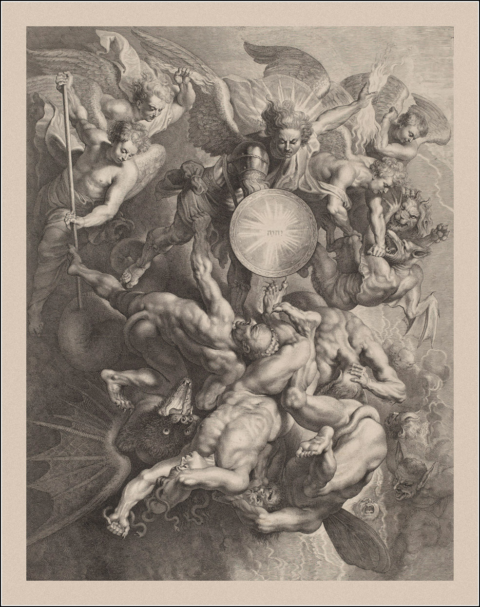 Lucas Emil Vorsterman after Sir Peter Paul Rubens (Flemish, 1595 - 1675 ), The Fall of the Rebel Angels, 1621, engraving, Andrew W. Mellon Fund.